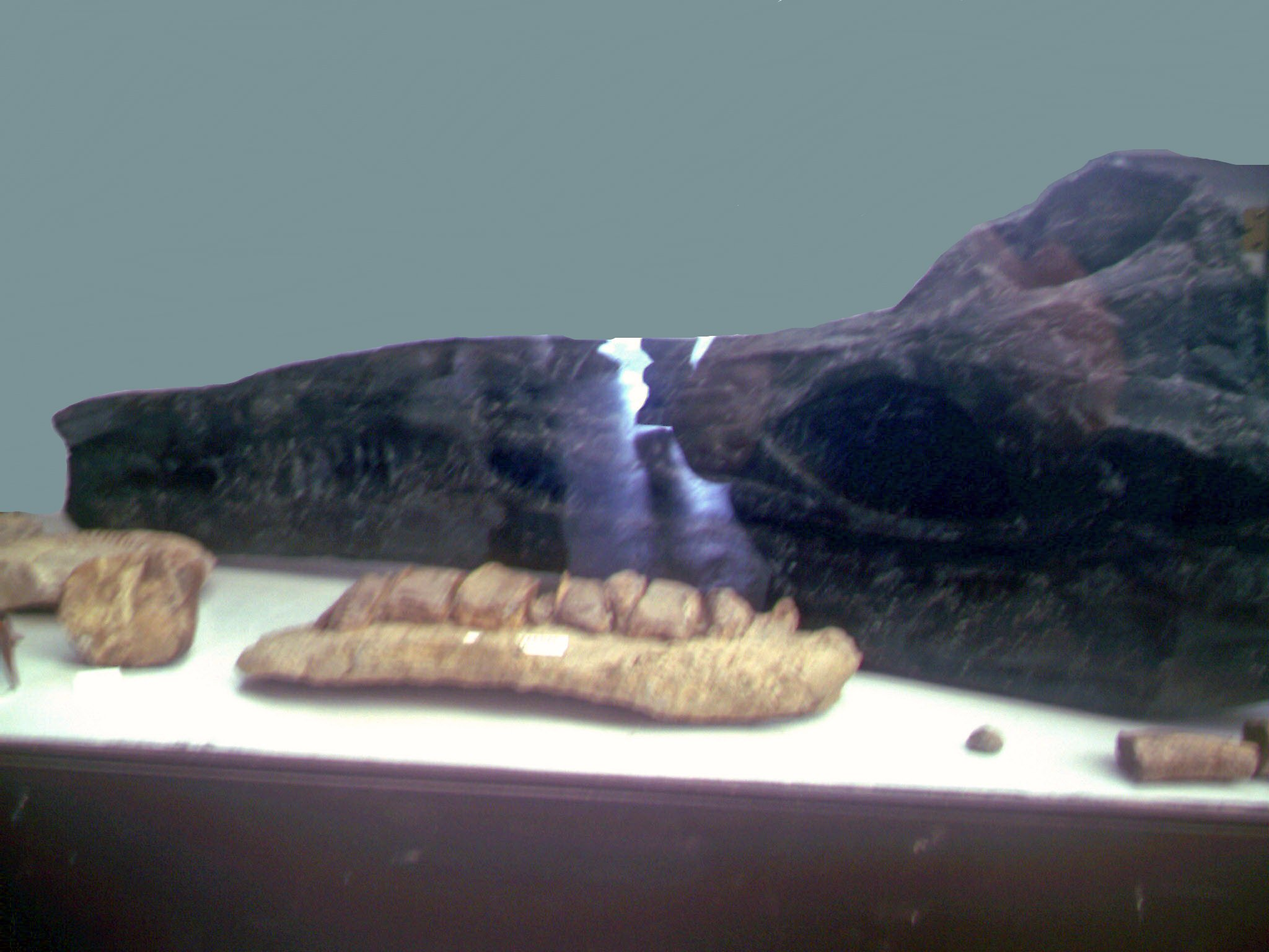 An ichthyosaur skull and teeth from our trip to Berlin-Ichthyosaur State Park. For more information on ichthyosaurs, check out Ichthyosaurs